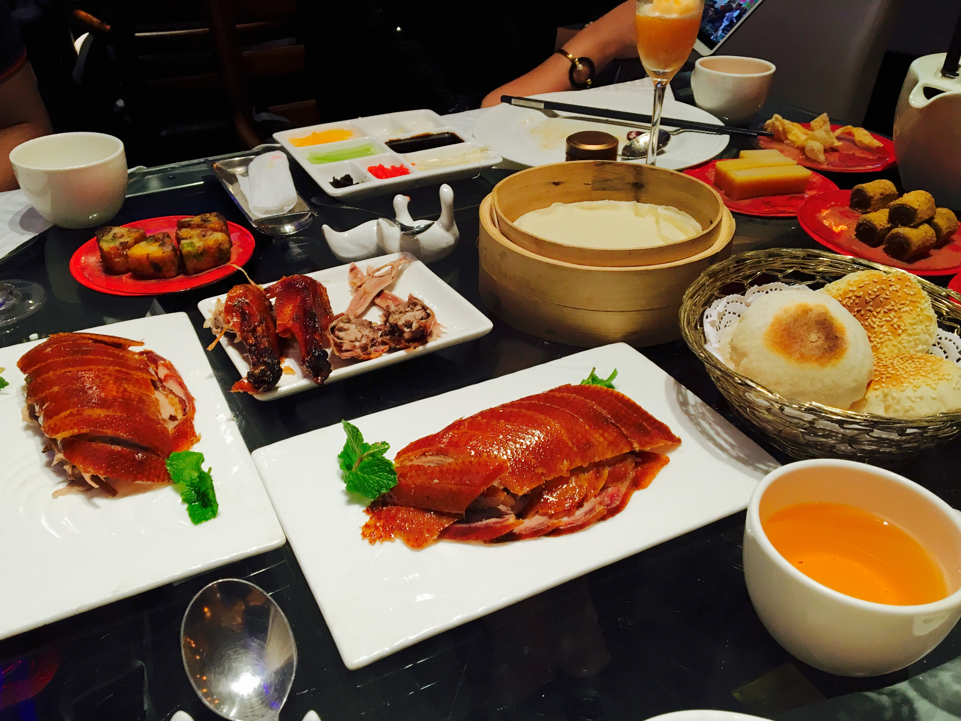 Beijing Duck set